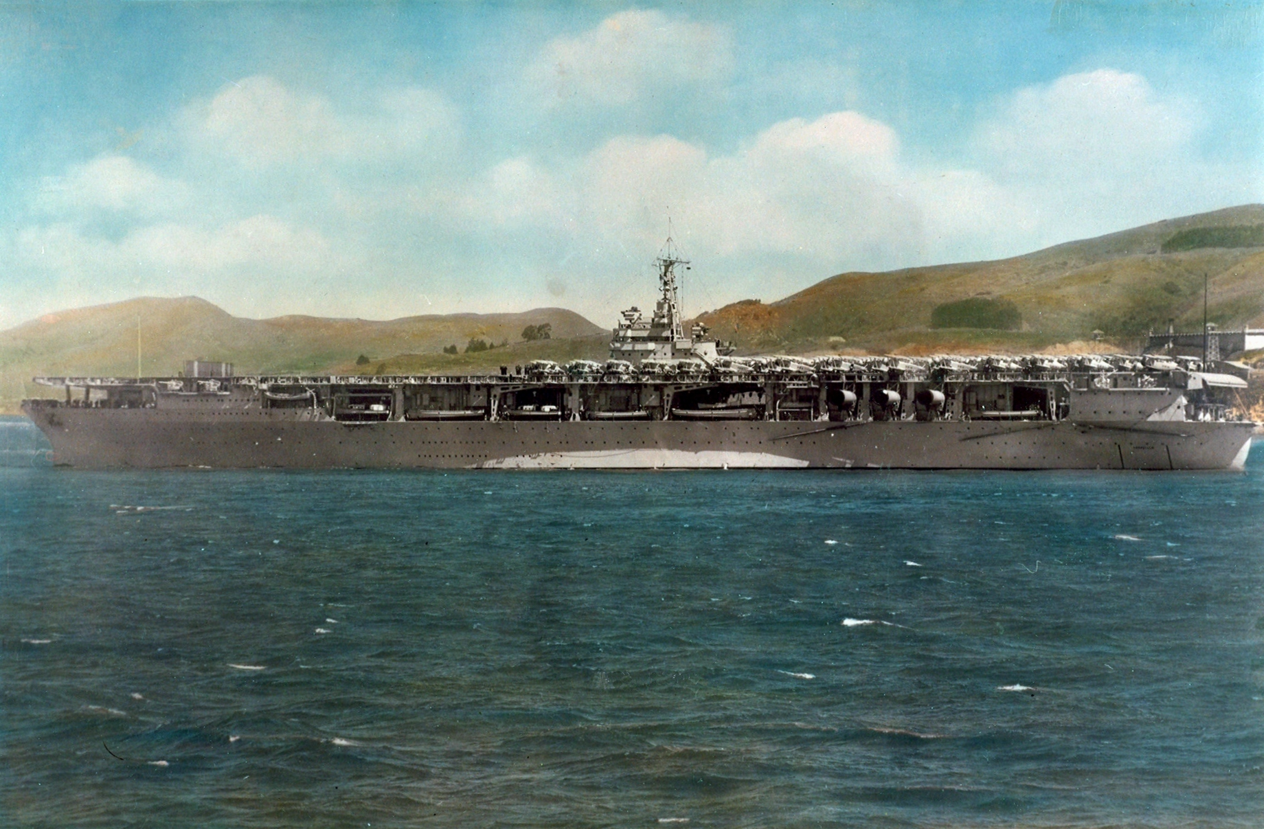 The U.S. Navy aircraft carrier USS Ranger (CV-4) lies at anchor close to shore with aircraft spotted on board, in 1936.